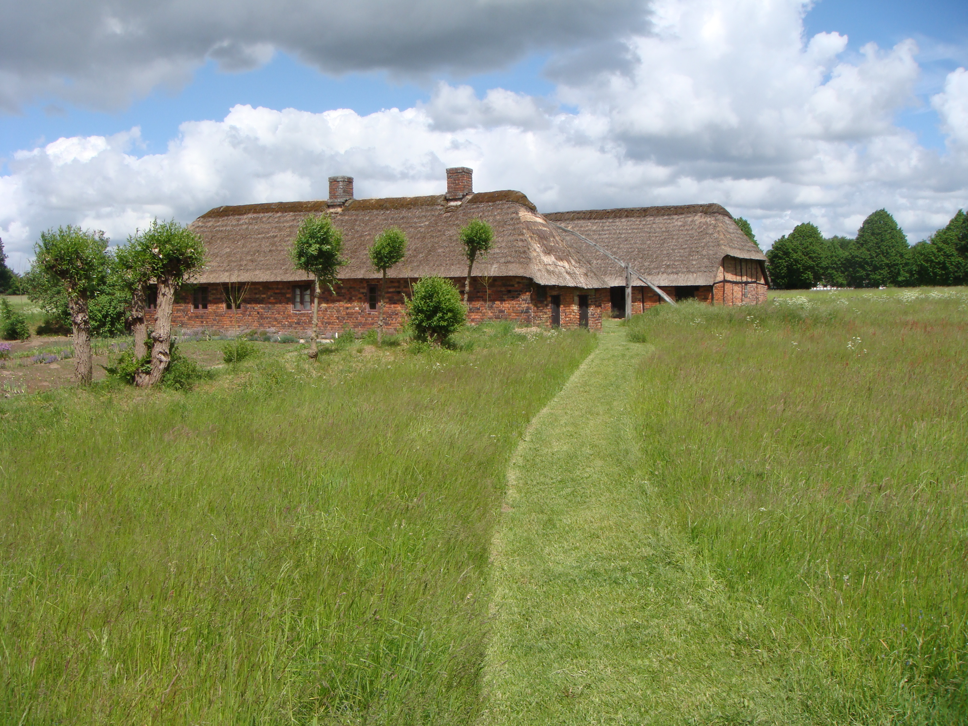 Farm from Vemb at the Open-Air Museum.